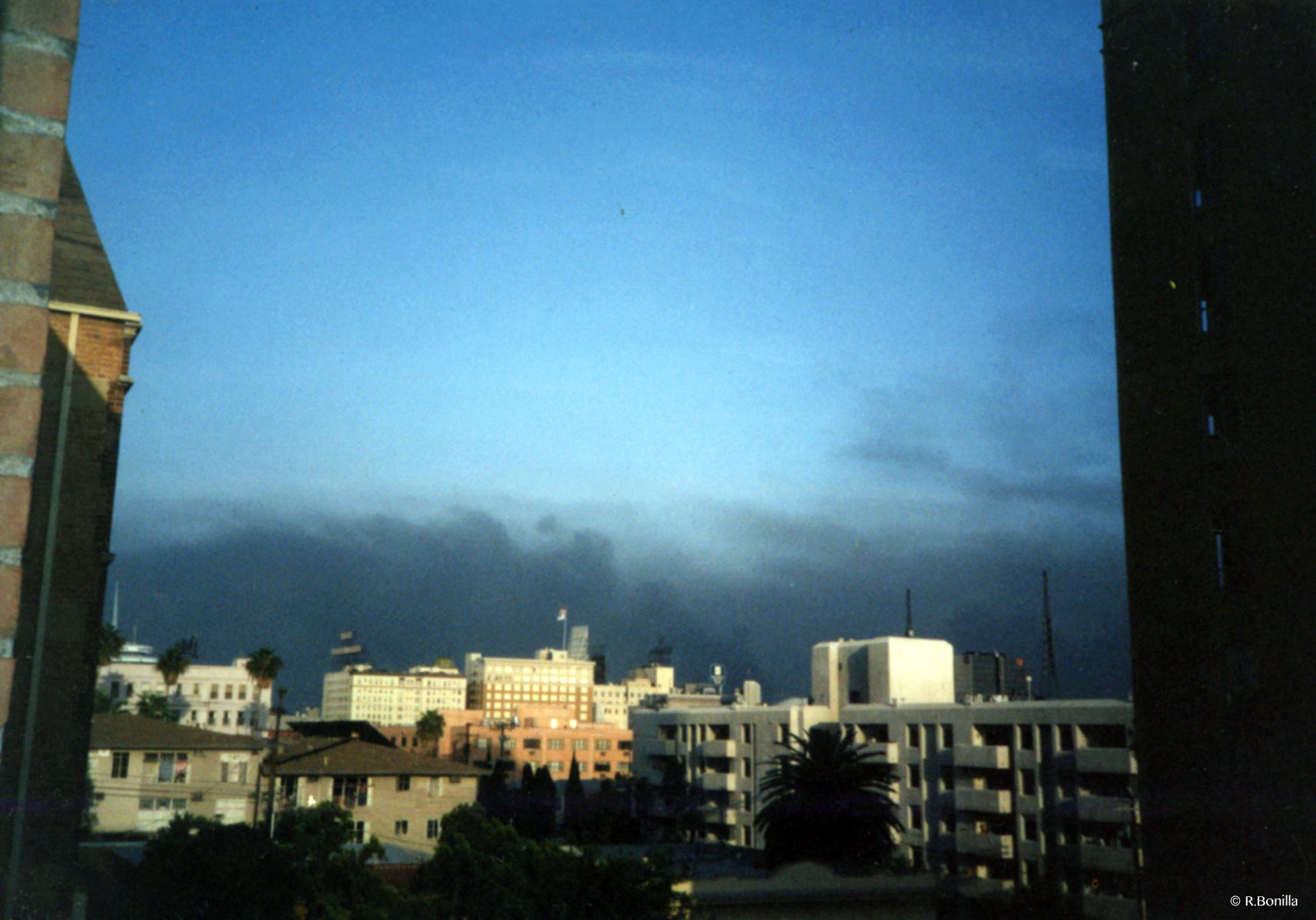 Shot showing the entire city up in smoke... This from Apartments on Whitley Ave, off Hollywood BLVD